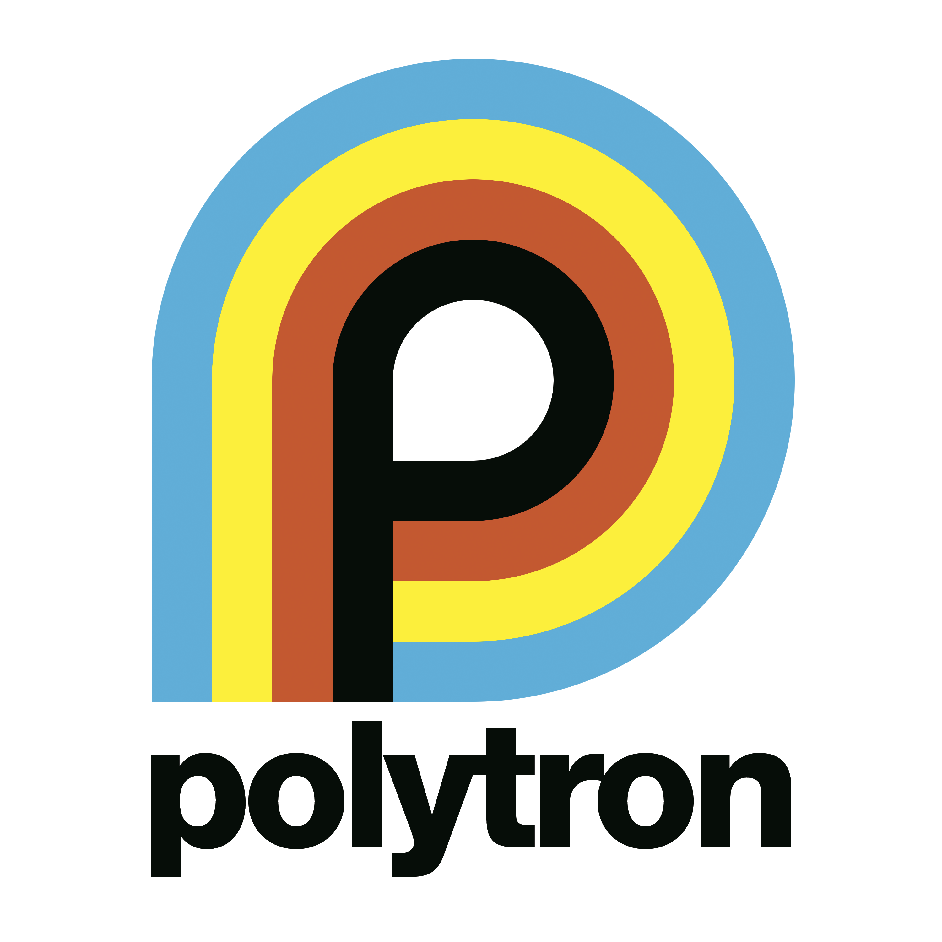 Polytron Corporation logo (makers of Fez), 300 dpi